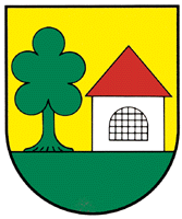 Coat of arms of Steinerberg, Canton Schwyz, Switzerland